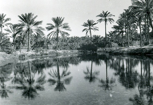 Qatif Palms